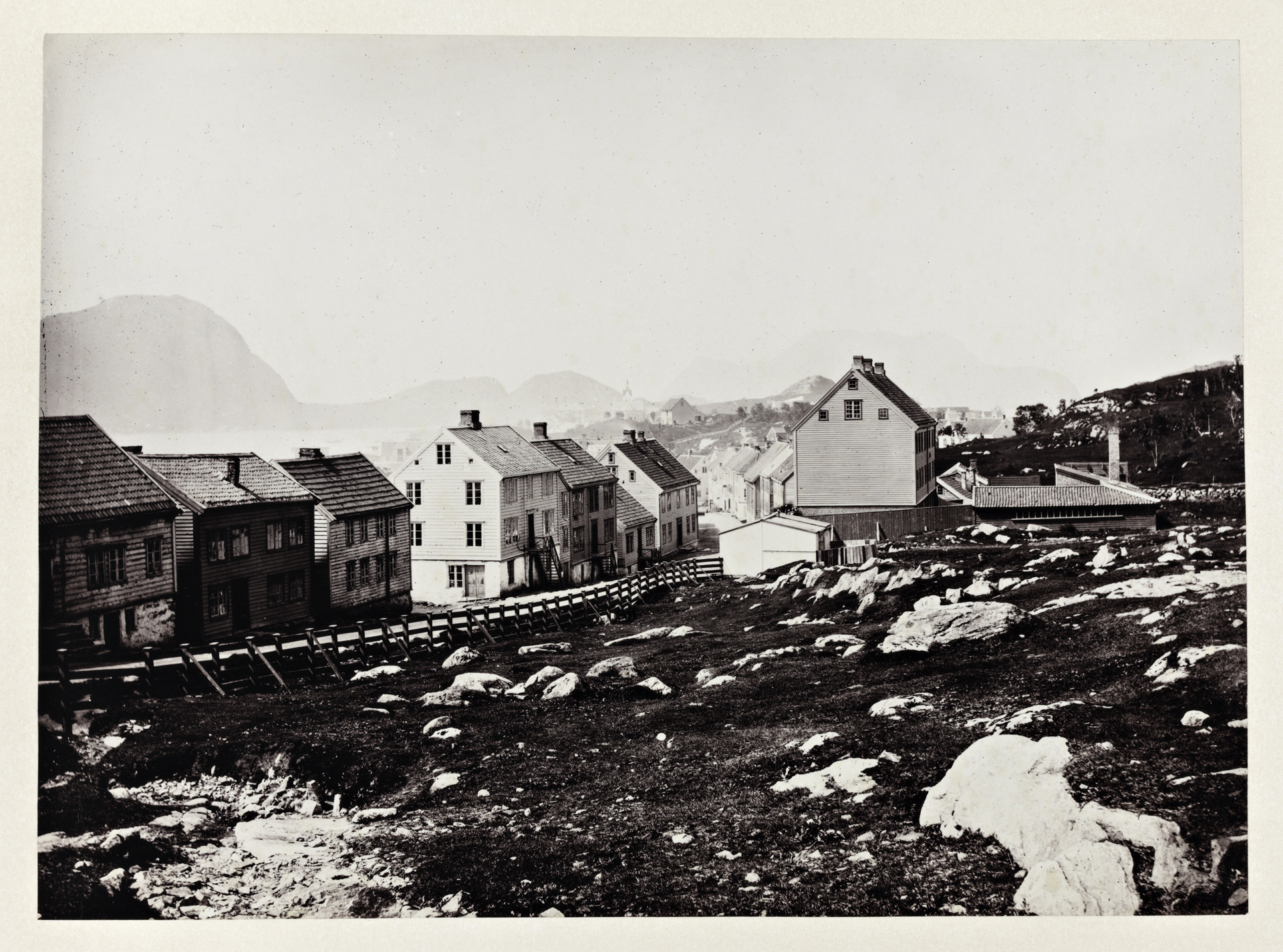 Tittel / Title: s. 18. Aalsund Motiv / Motif: Albuminkopi. Dato / Date: 1869 Fotograf / Photographer: Edward Backhouse Mounsey (1840-1911) Sted / Place: Møre og Romsdal, Ålesund Eier / Owner Institution: Nasjonalbiblioteket / National Library of Norway Lenke / Link: Bildesignatur / Image Number: bldsa_Alb_BH021